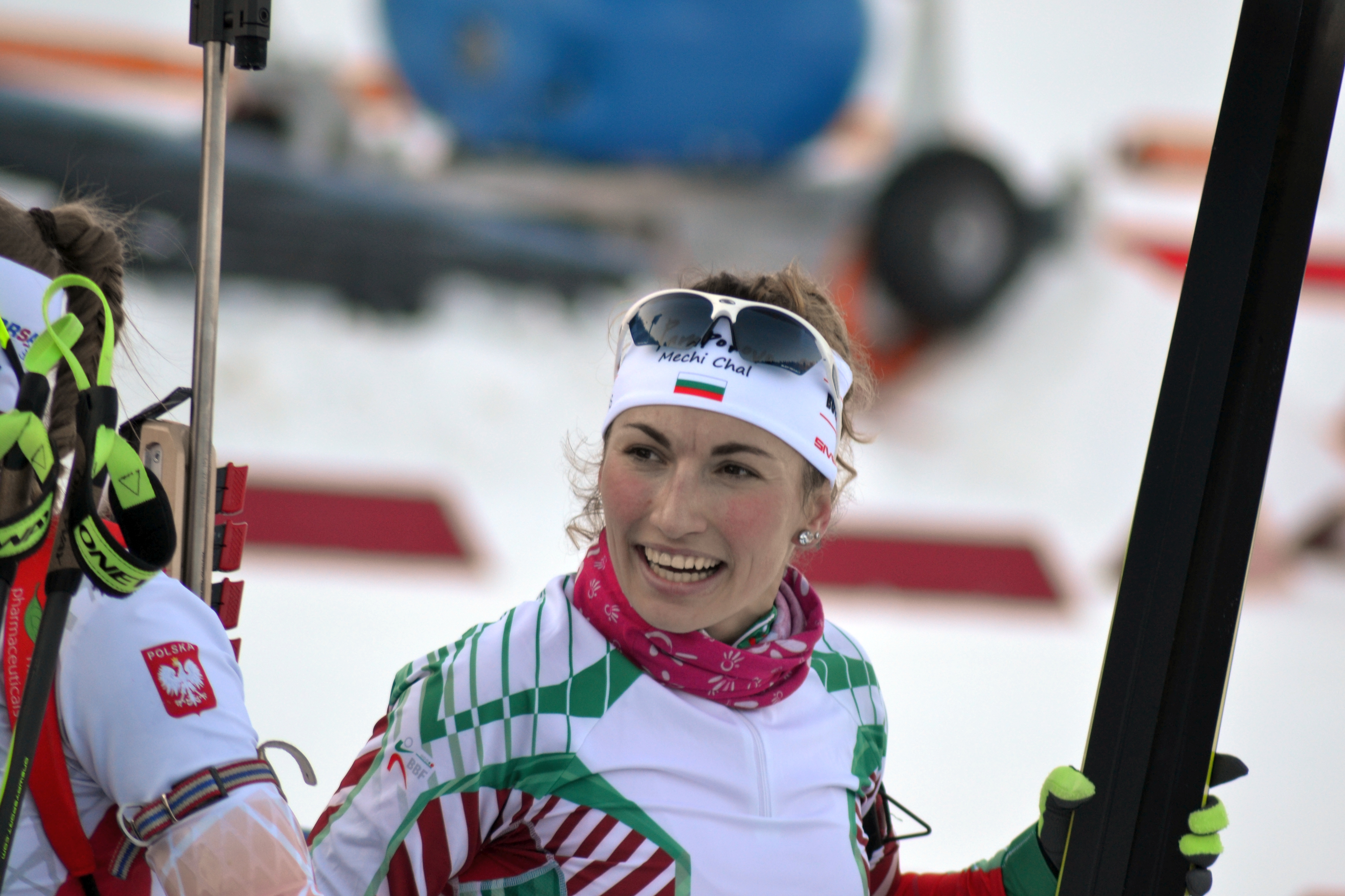 Open European Championships Biathlon 2017, Sprint Women's race, held on January 27th.